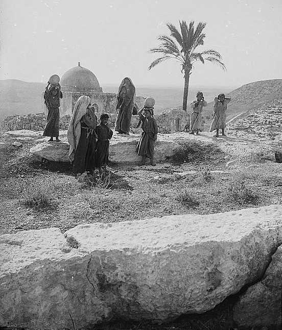 The Palestinian village of Sara, near Jerusalem, before 1920